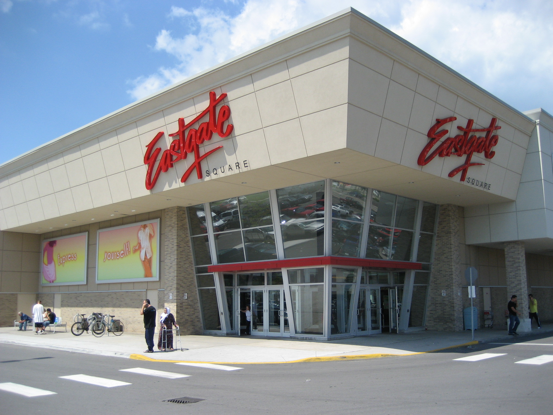 Eastgate Square (Mall), Hamilton, Canada.